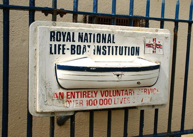 RNLI donation box, Portrush. Box on the wall of the lifeboat station 290715.